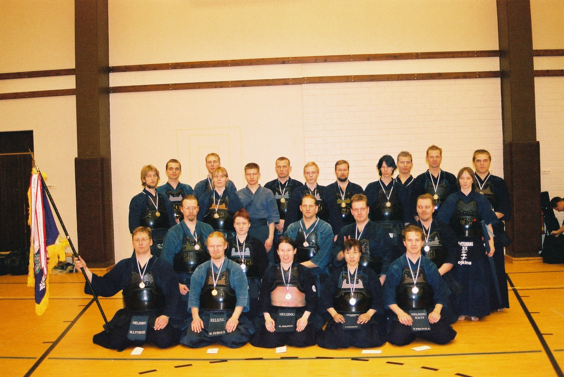 The winners of the team competition of the 2005 Finnish kendo championships, February 26th, 2005, Ulvila.